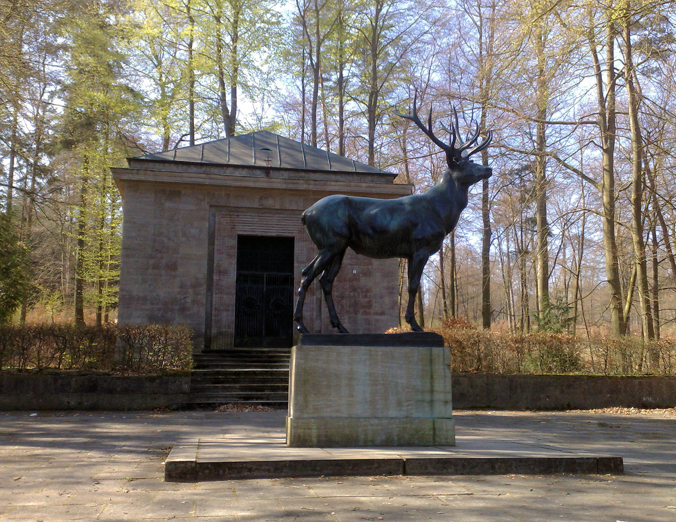 Mausoleum and bronze deer in Friedrichswalde, disctrict Ludwigslust-Parchim, Mecklenburg-Vorpommern, Germany